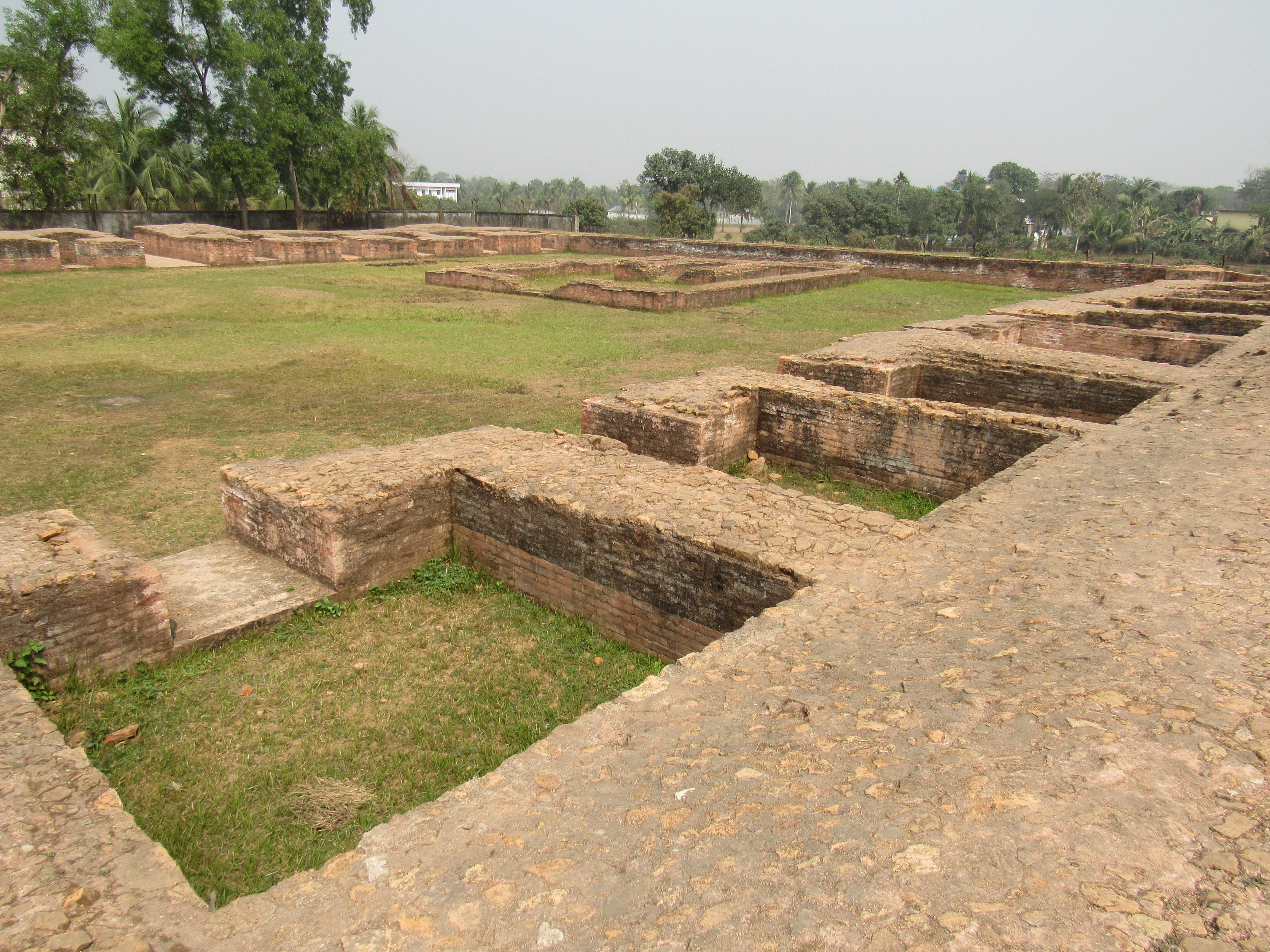 Lotikot Mura, Comilla